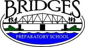 The Logo of the Bridges Preparatory School in Beaufort SC